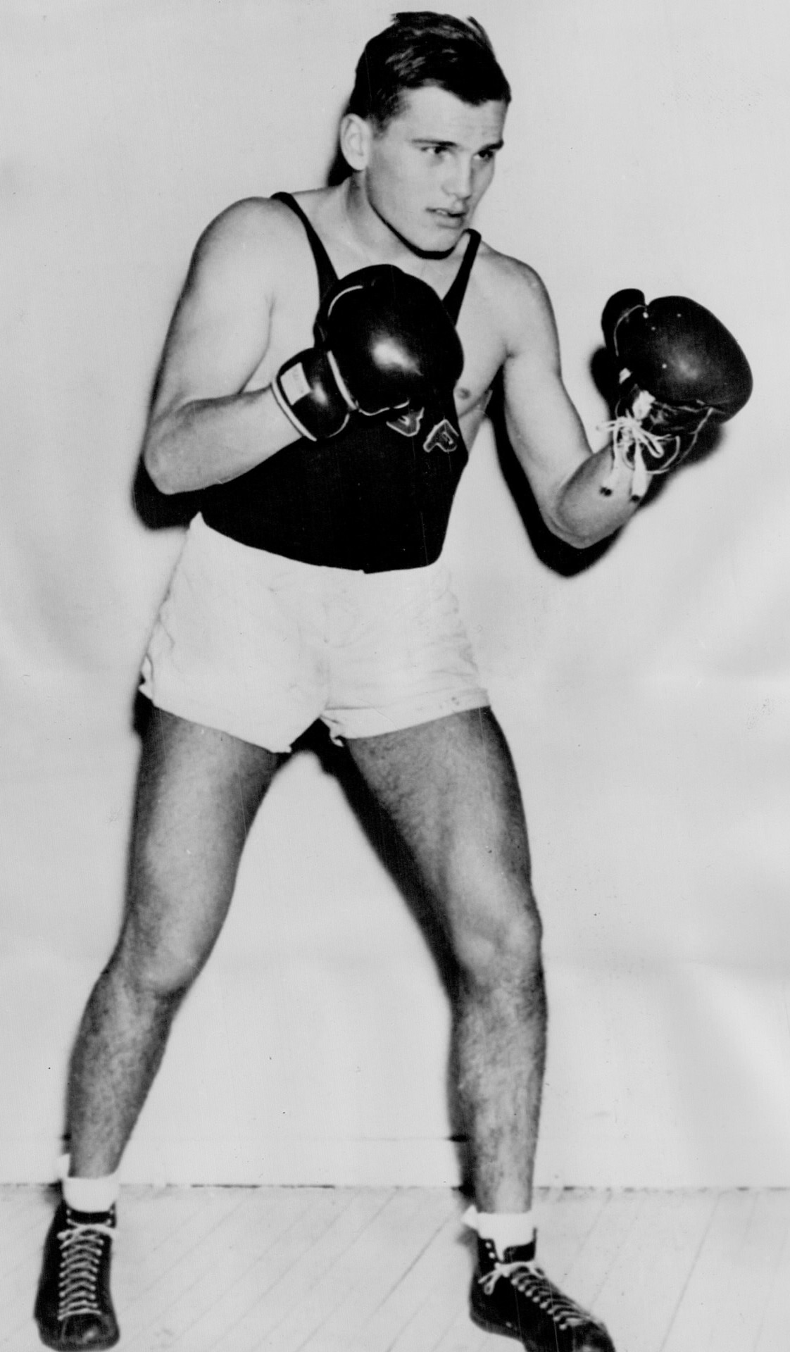 From Oarsman to Boxing Champ; Bainbridge; MD. - Jack Kelly Jr. Schuylkill Navy single sculling champion; has just completed his boot training at Bainbridge; MD.; where he won the heavyweight boxing championship of his company. He is the son of Jack Kelly Sr.; Olympic singles and doubles champion of a quarter century ago.